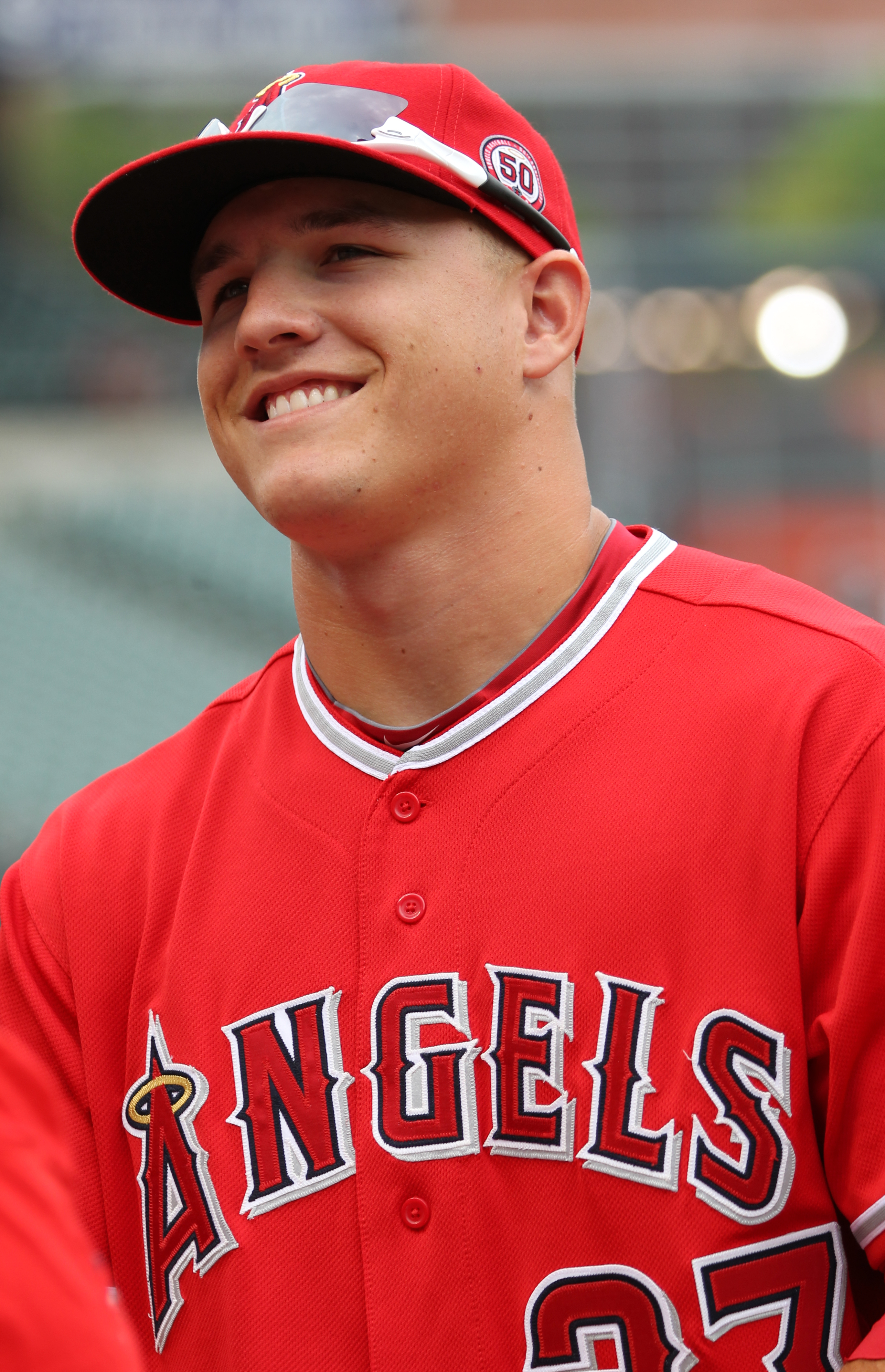 Angels at Orioles July 24, 2011